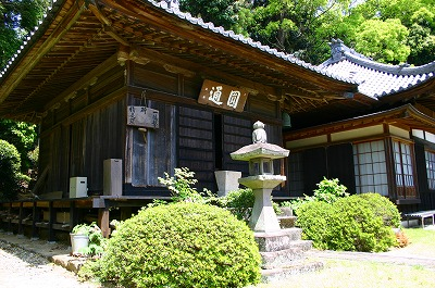 Shogenji, Shizuoka / Kannon-do